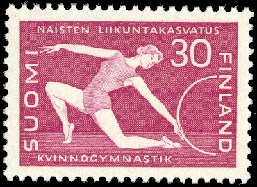 Postage stamp depicting the celebrated Finnish gymnast Elin Kallio